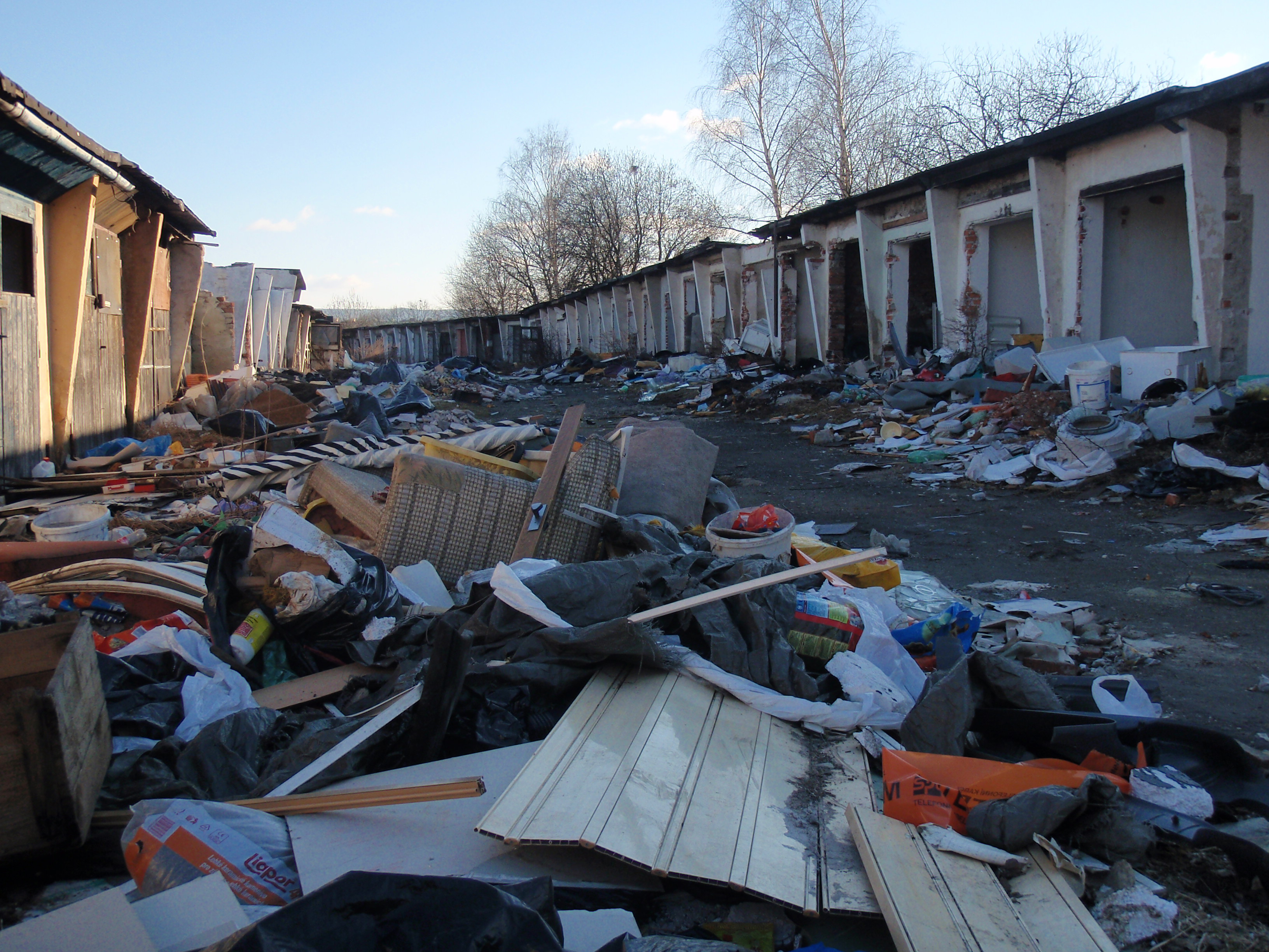 Garage in the street Jabloňová